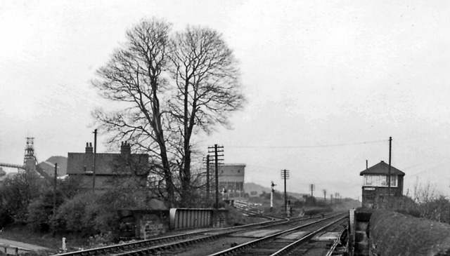 Site of Bearpark (formerly Aldin Grange) Station, near to Bearpark, County Durham, Great Britain. View NW, towards Blackill; Lanchester Valley line (Durham - Blackhill). Called Aldin Grange until 1/5/27, this station was closed entirely on 1/5/39 when the passenger service ceased, but goods continued and the line was not closed until 20/6/66.